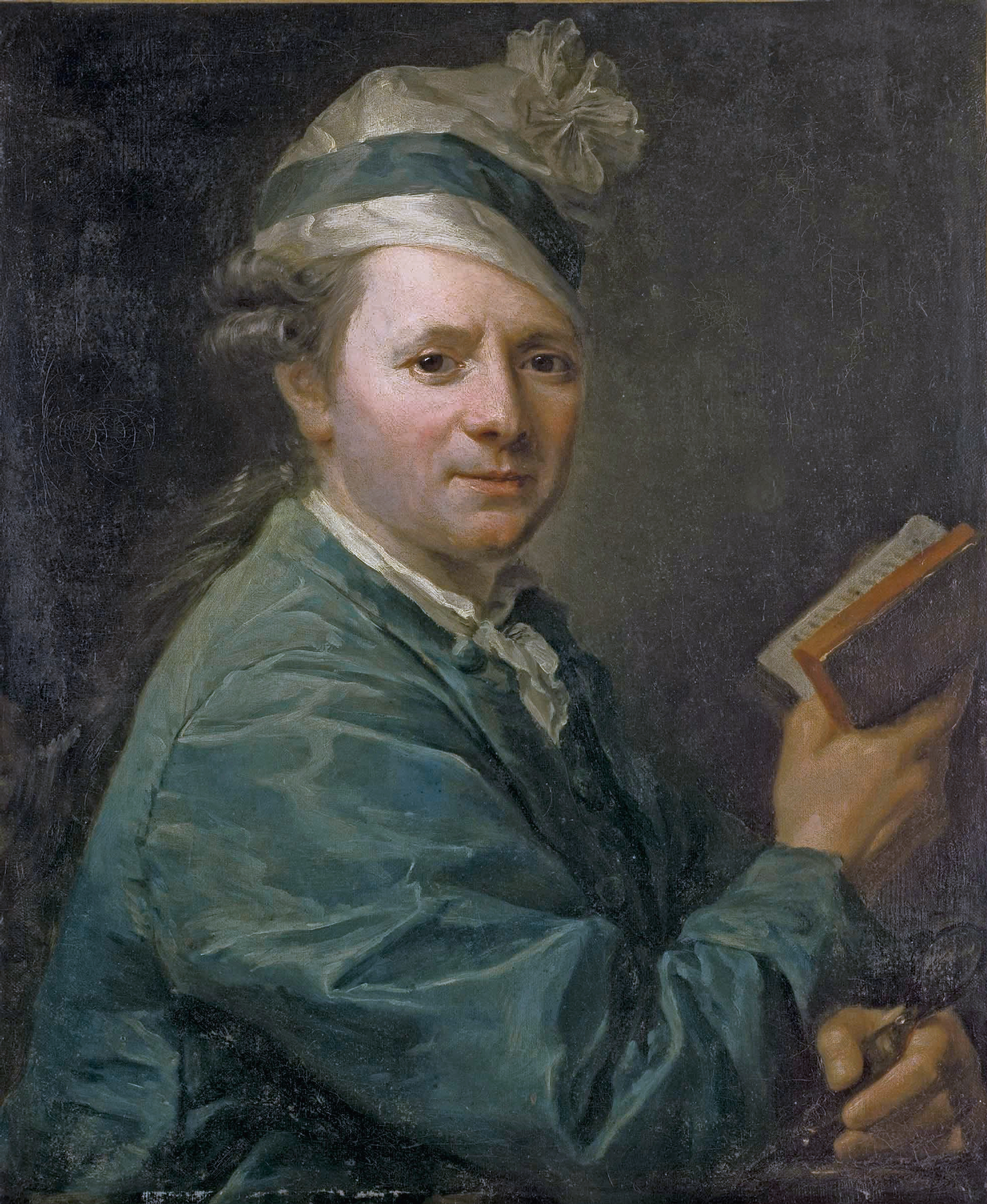 Presumed portrait of Monsieur de Sénac de Meilhan (1736-1803)